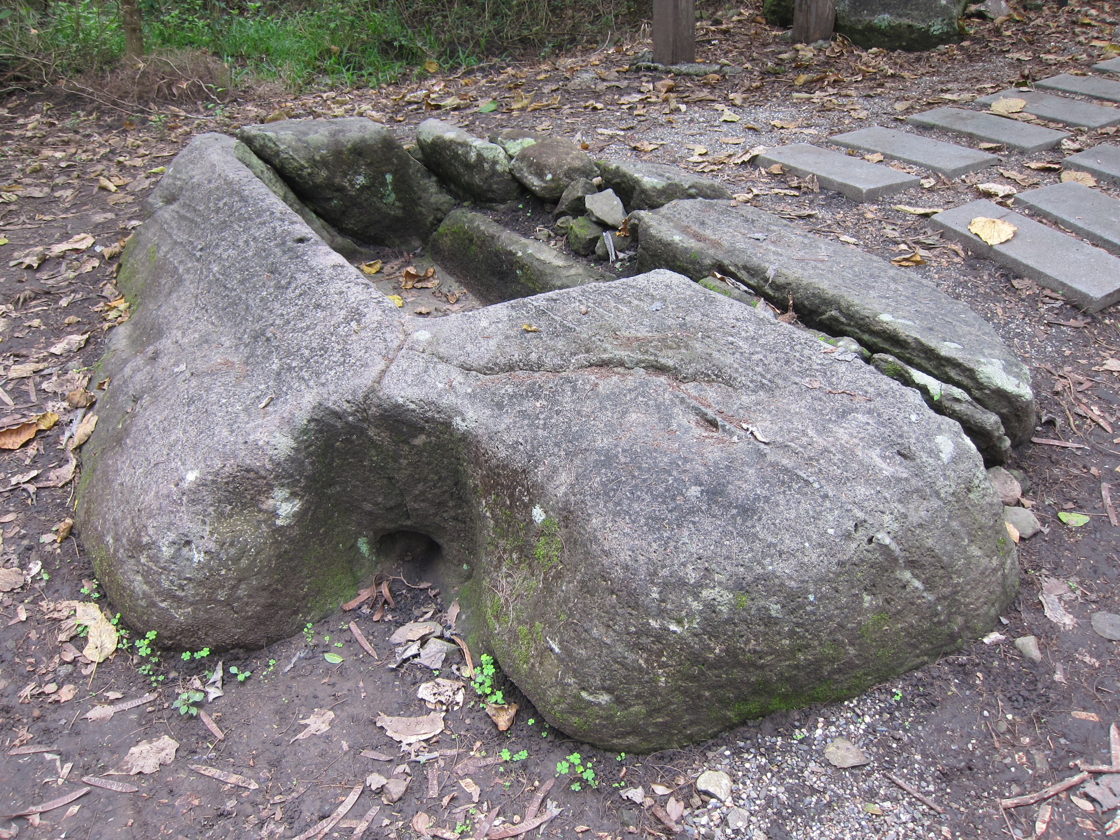 The stone sarcophagus found at the Dulan Site, Taitung, Taiwan.